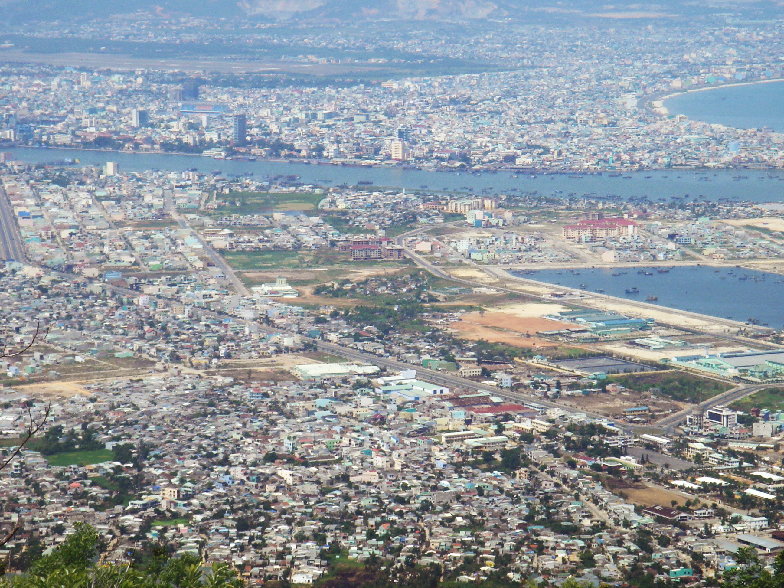 Part of Da Nang, high view from top of Son Tra Mountain